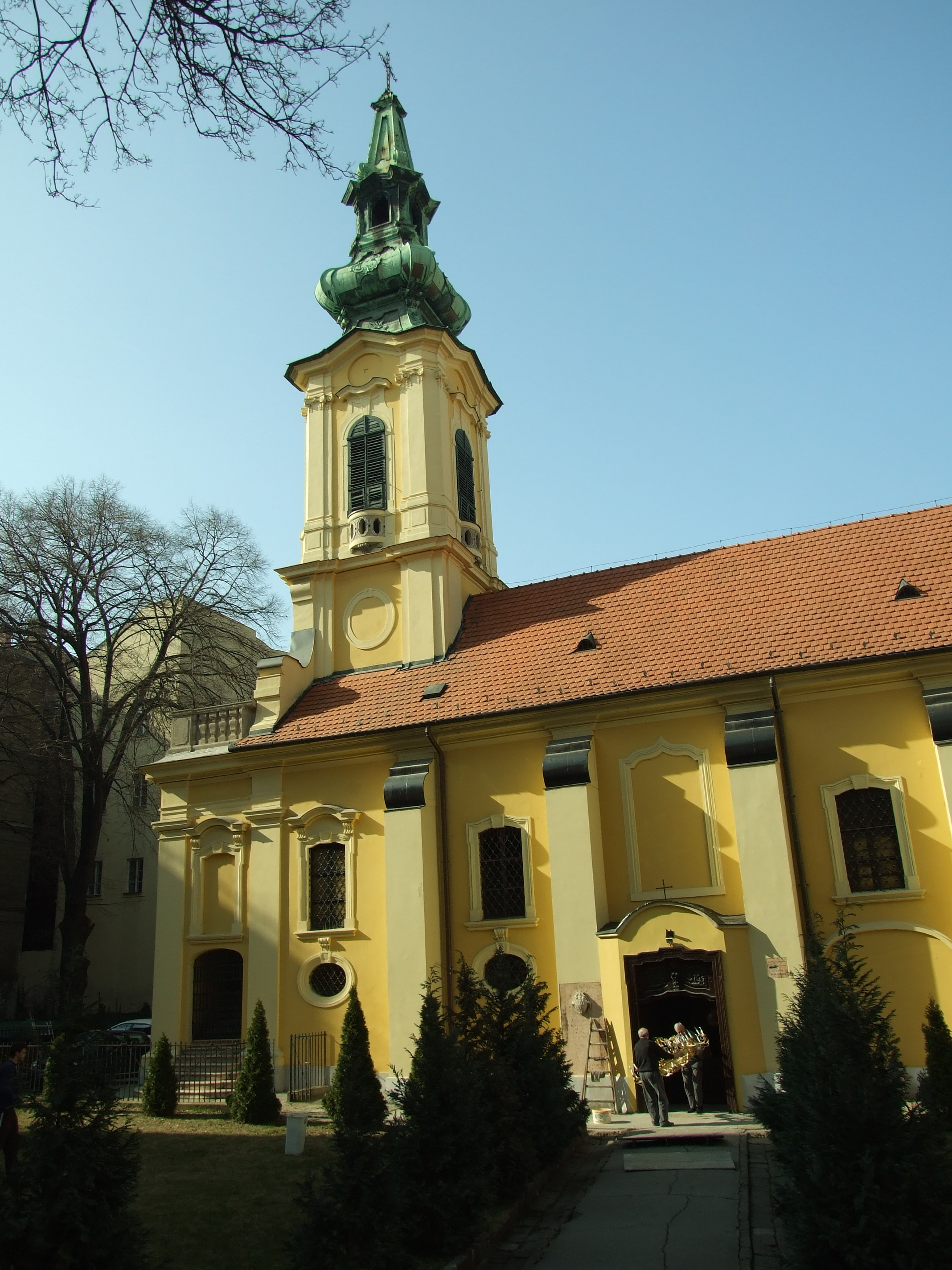 Serbian orthodox church in Budapest, Hungary